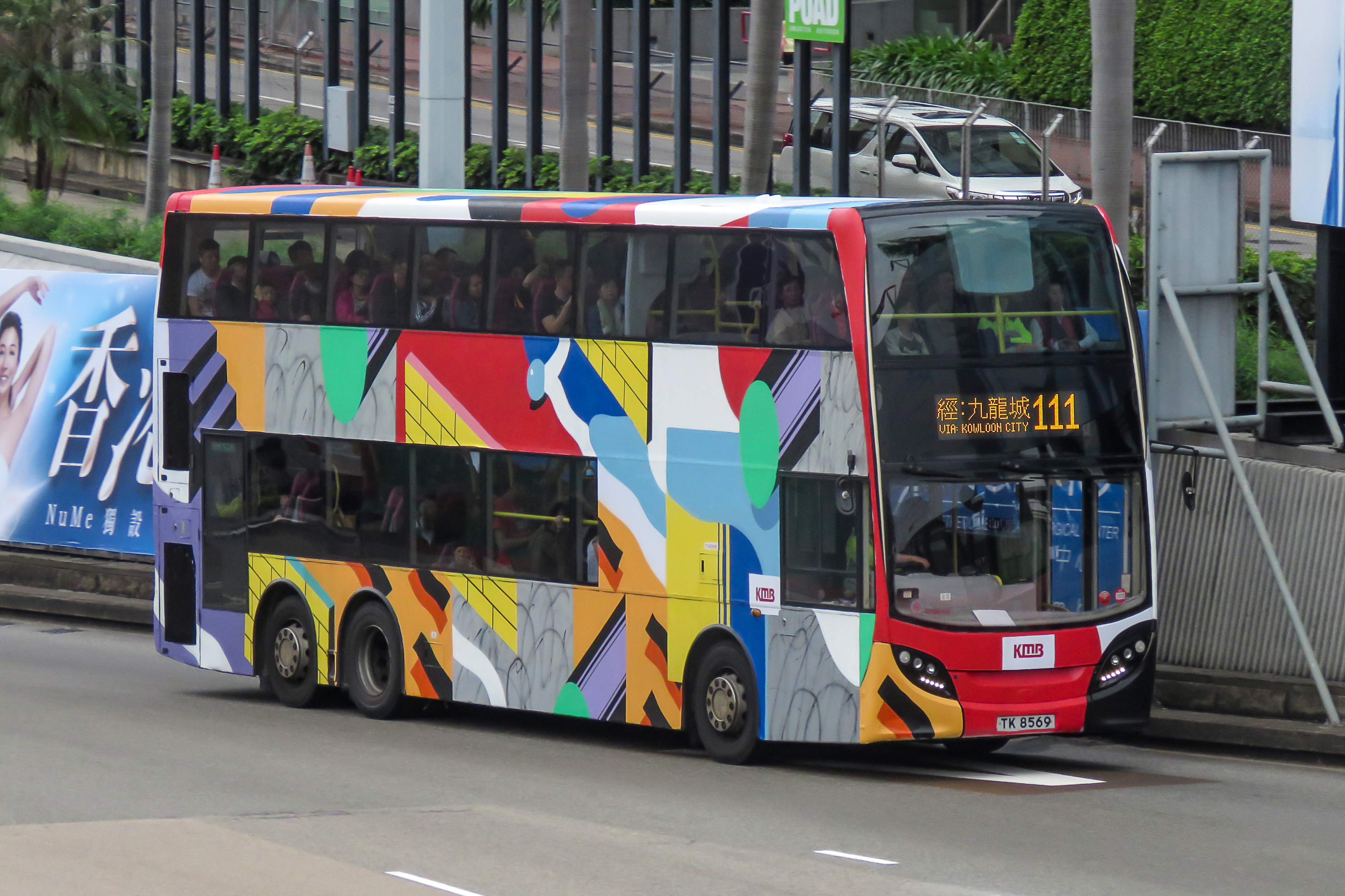 Just got a MUR0NE livery.